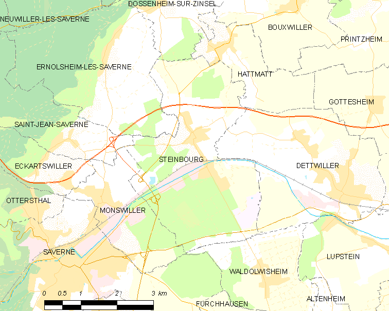 Map of French municipality